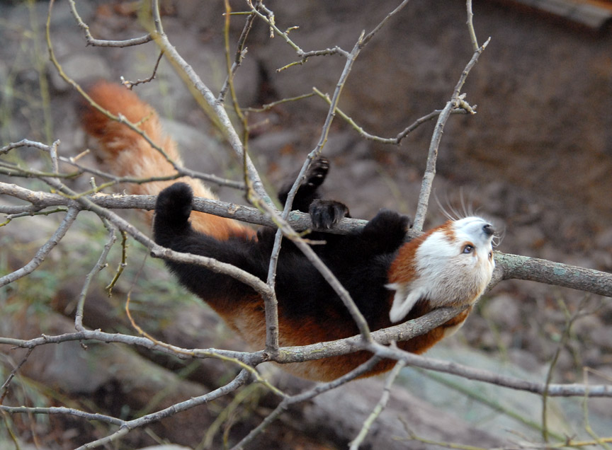 Another fine mess